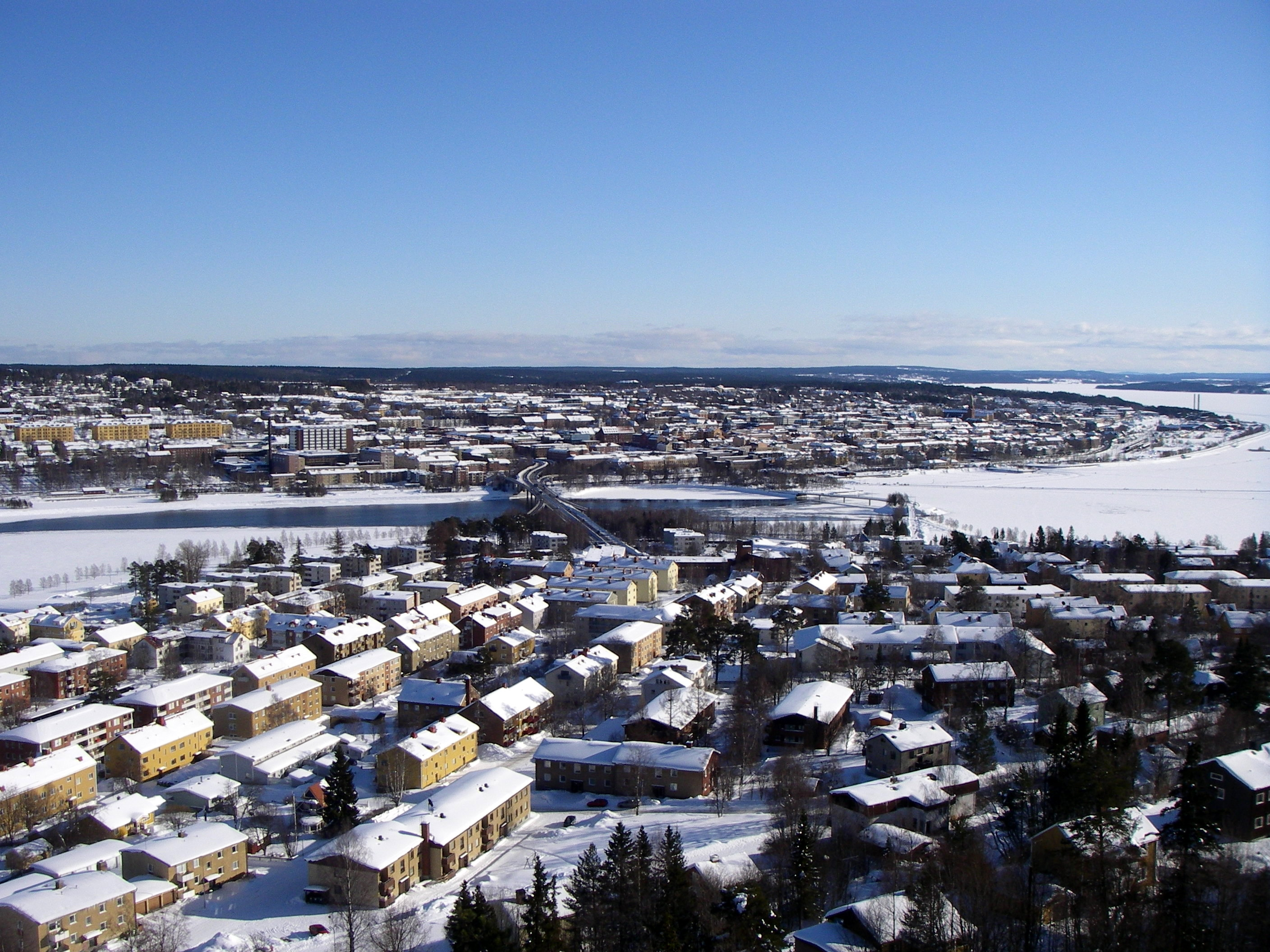 Östersund seen from Frösön, Jämtland, Sweden.